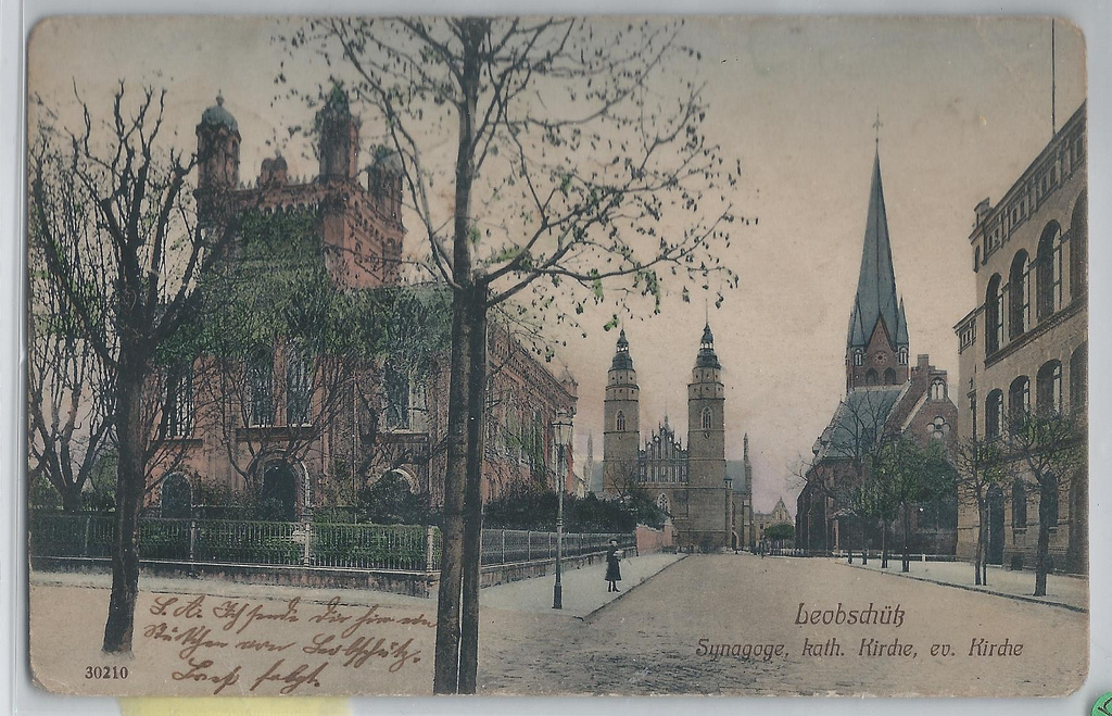 Leobschütz synagogue with the catholic and the evangelic church